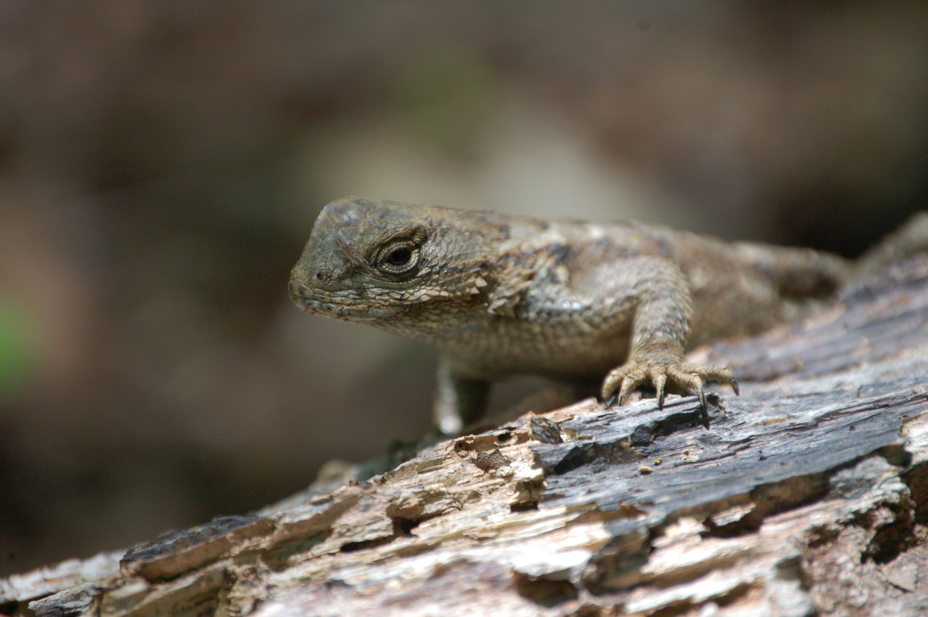 A juvenile Eastern Fence Lizard in North Carolina.